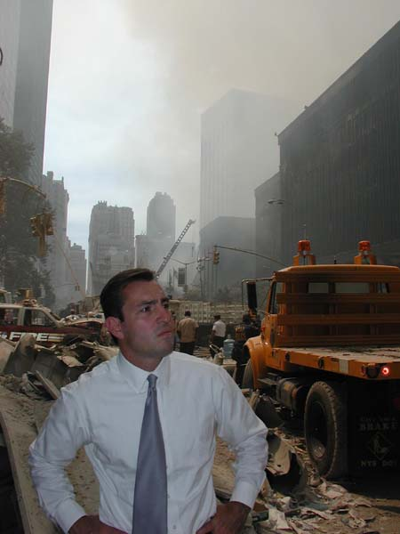 Vito Fossella Visits Devastated Areas in Lower Manhattan